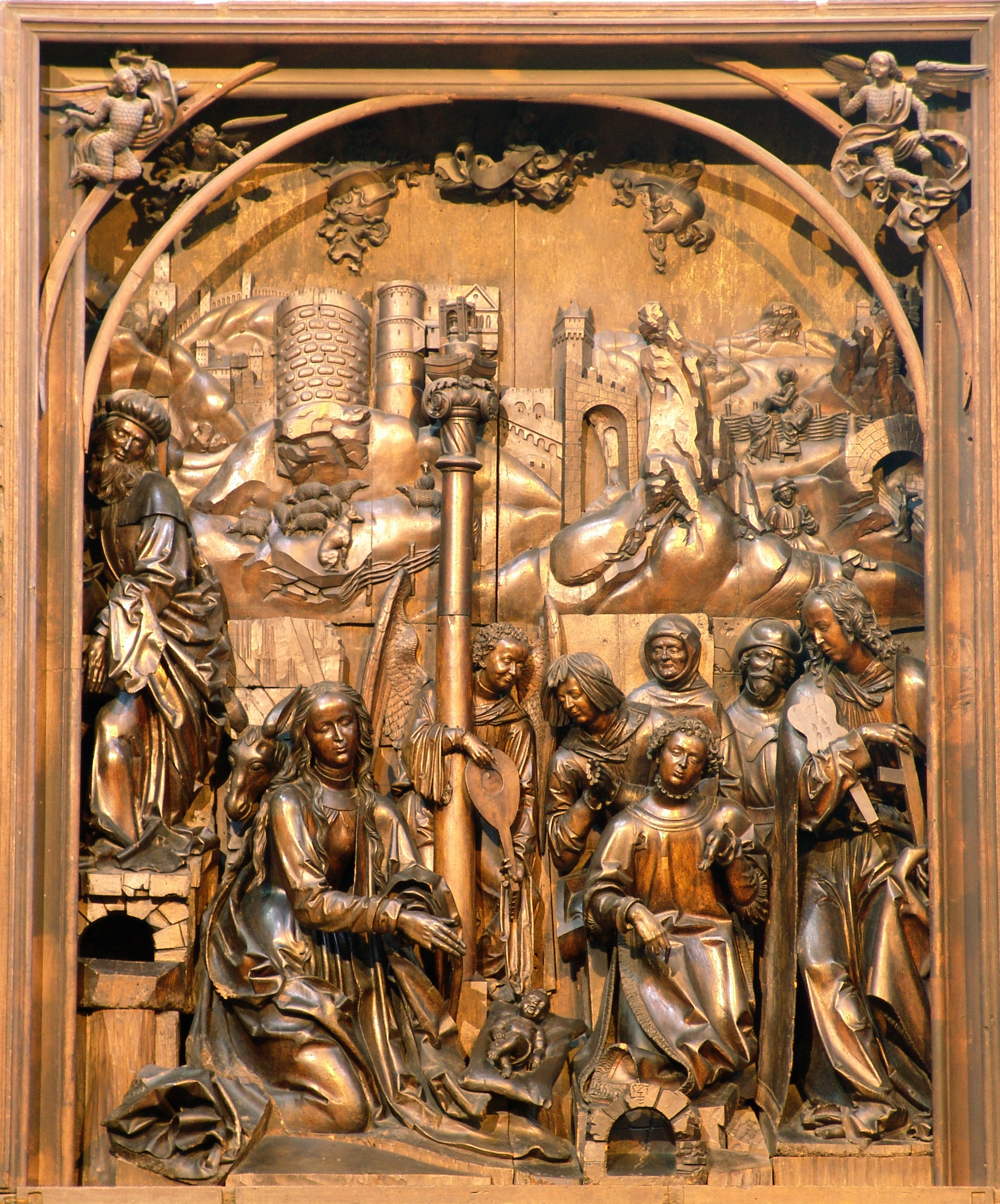 Detail from the Veit Stoss' Alter in Bamberg Cathedral